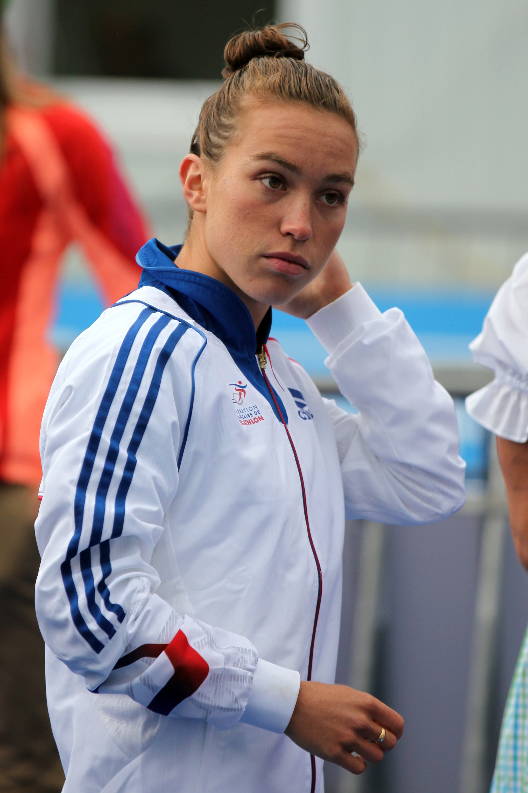 Audrey Merle at the triathlon European Championships in Kitzbuhel